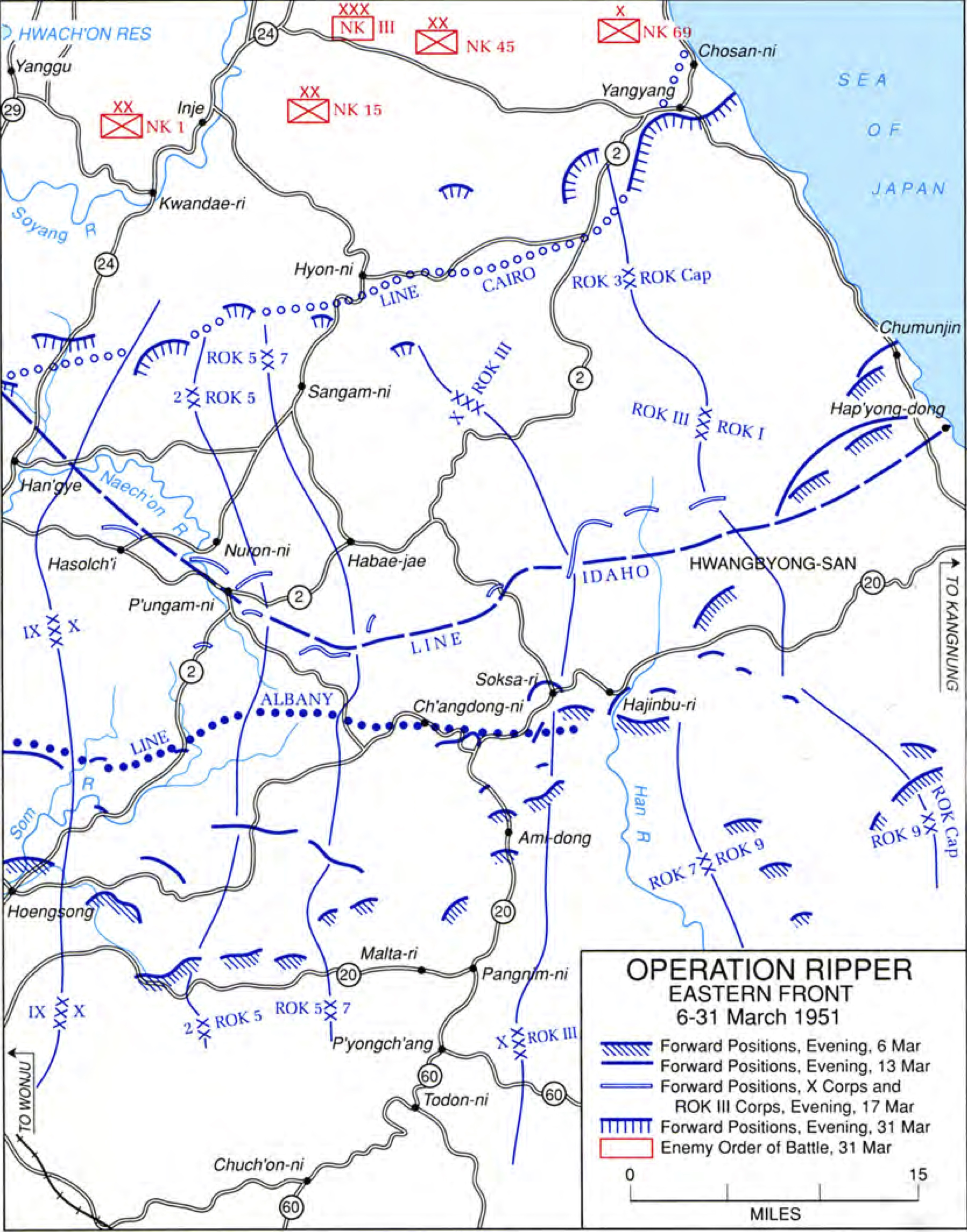 Operation Ripper 6-31 March 1951 eastern front